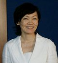 Mrs. Akie Abe, wife of Japanese Prime Minister Shinzo Abe, following a tour of the Mount Vernon Estate of George Washington Thursday, April 26, 2007, in Mount Vernon, Va.